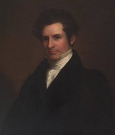 Portrait by Thomas Sully, photograph by R Tayloe Cook VII